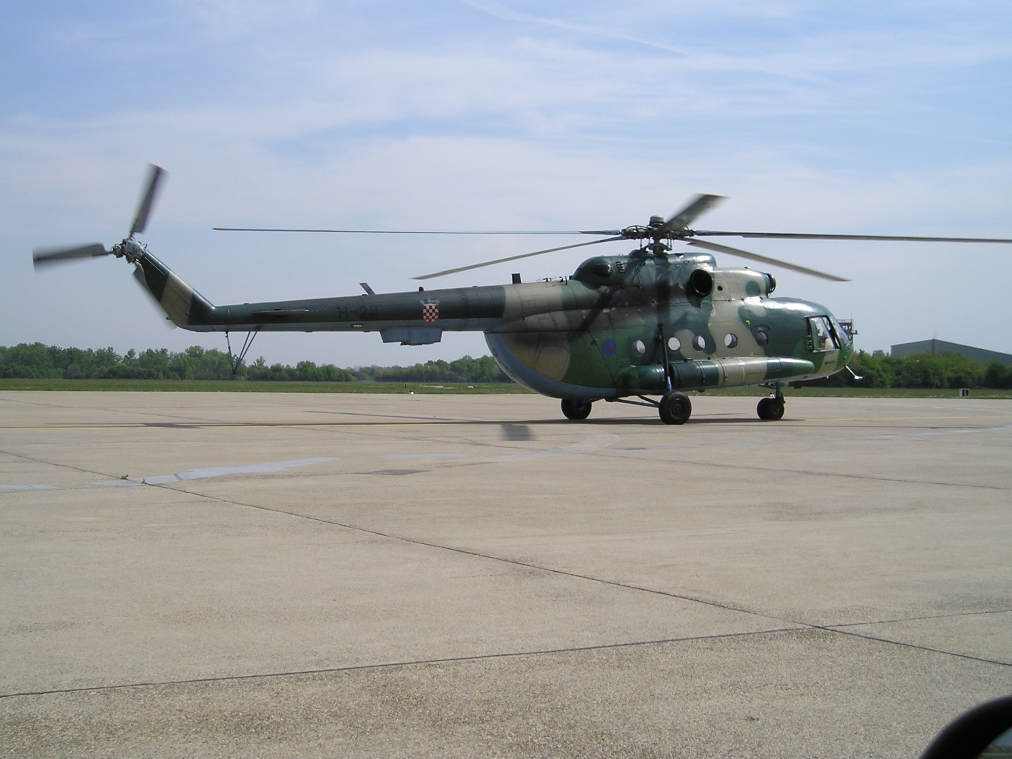 Croatian Air Force Mil Mi-8MTV